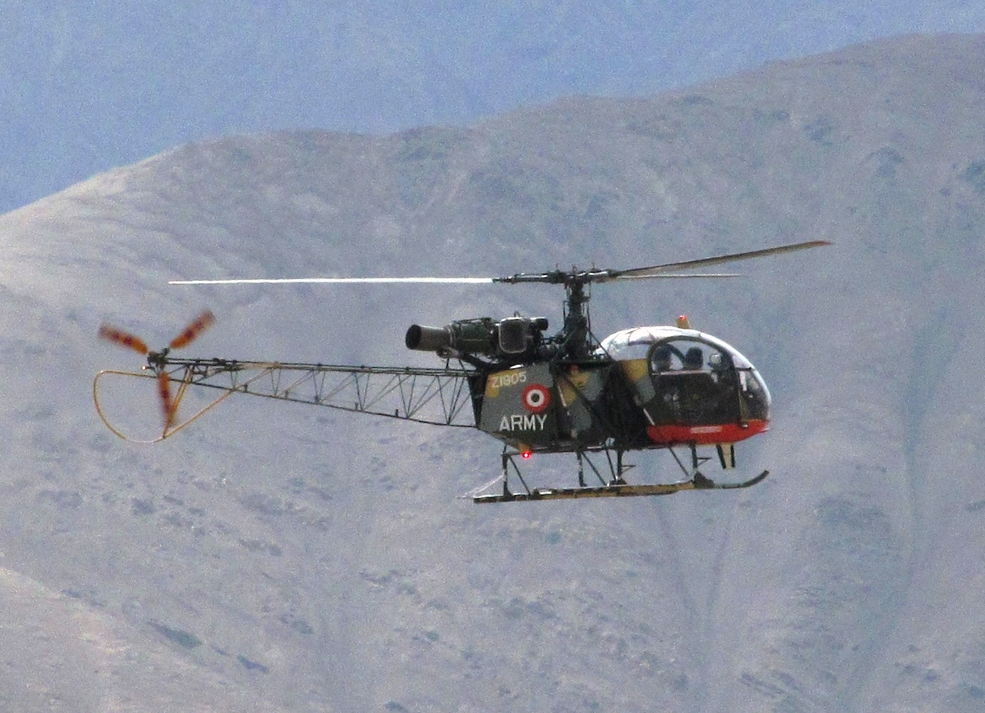 Indian Army's HAL Cheetah at Leh air base